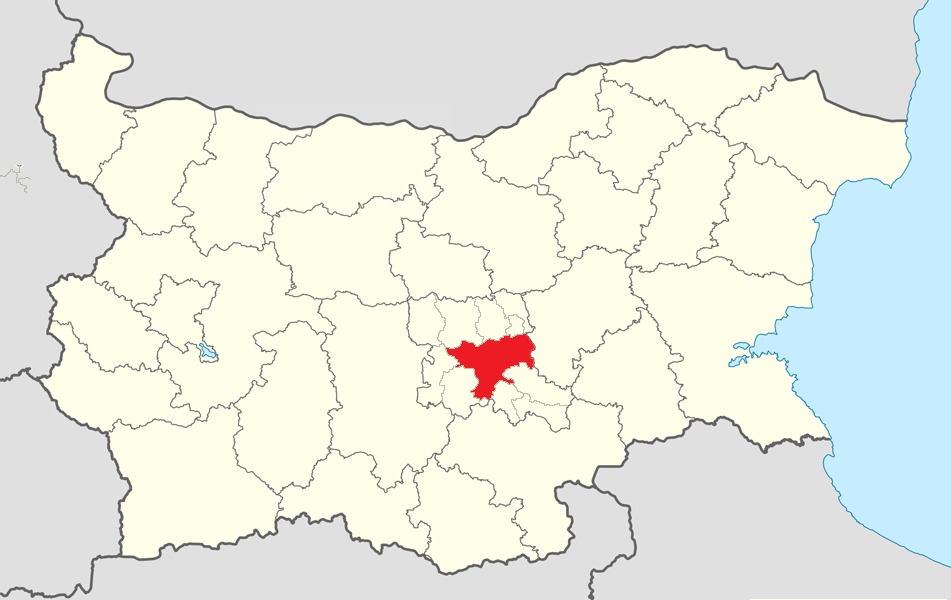 Location map of Stara Zagora Municipality within Bulgaria and Stara Zagora Province